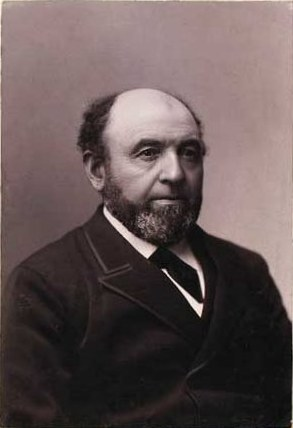 Rasmus Claussen (1835-1905), Member and Speaker of the Danish Folketing